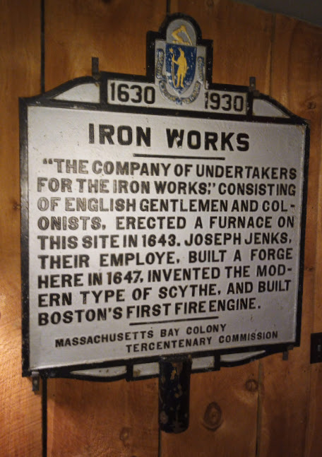 "The Company of Undertakers for the Iron Works," consisting of English gentlemen and colonists, erected a furnace on this site in 1643. Joseph Jenks, their employe, built a forge here in 1647, invented the modern type of scythe, and built Boston's first fire engine.